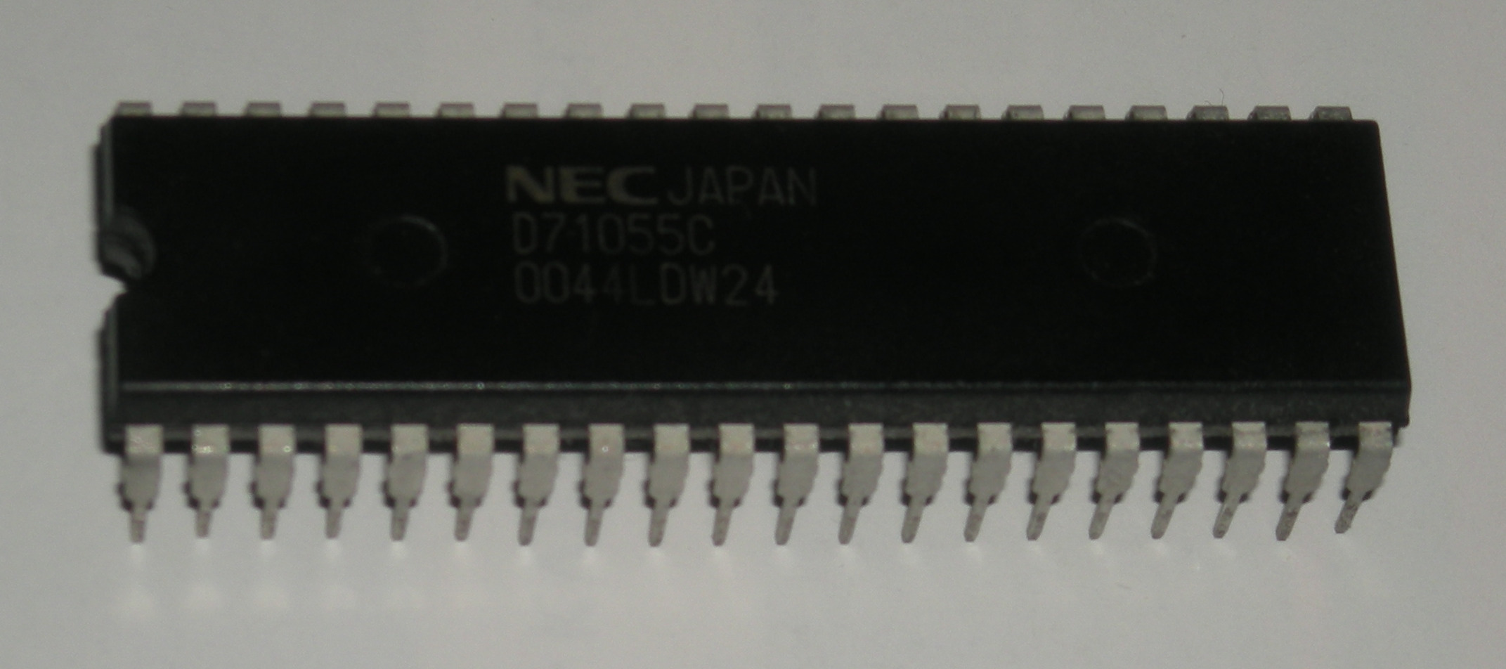 uPD71055 PPI - Parallel I/O LSI made by NEC.